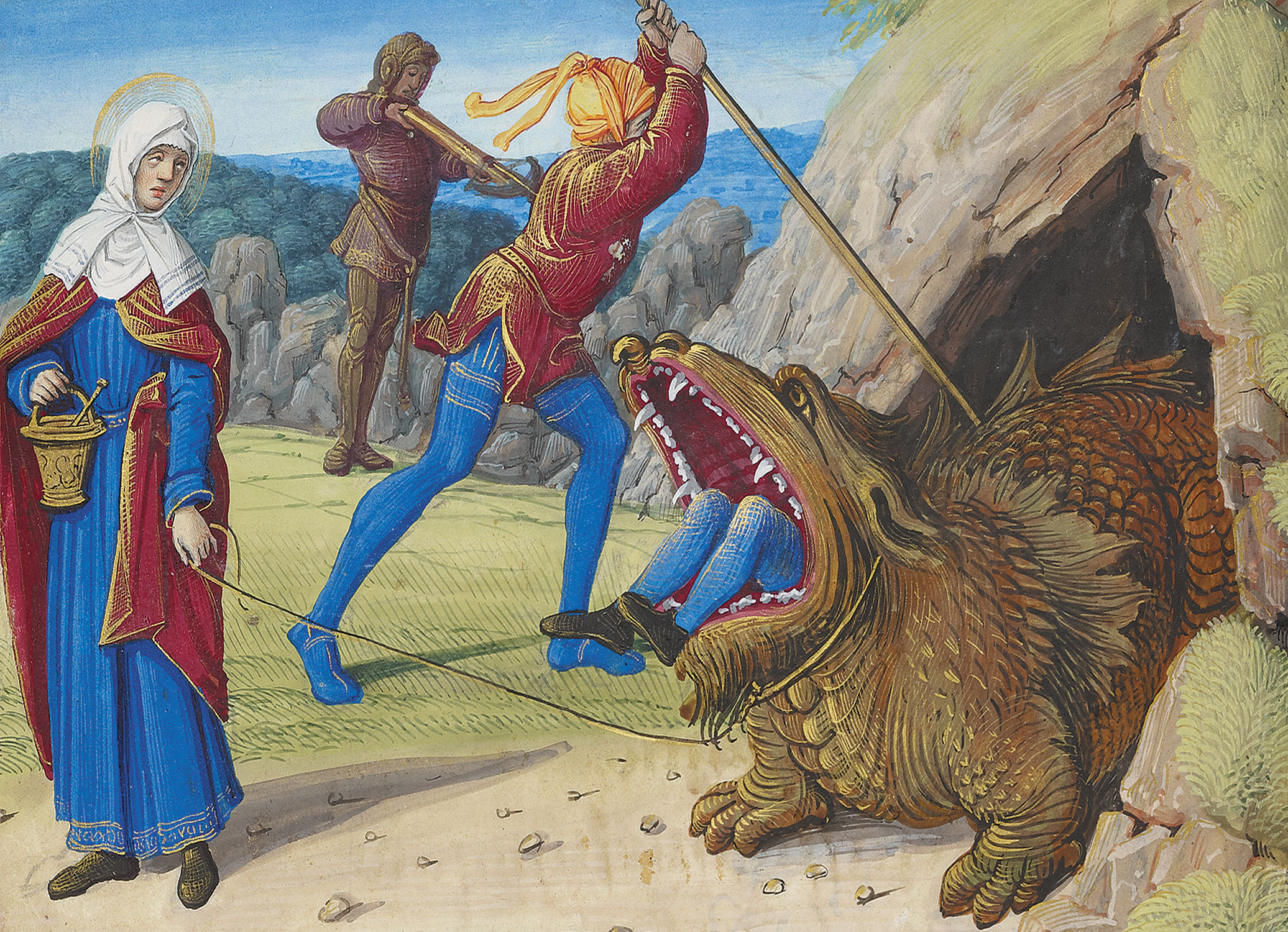 Saint Martha Taming the Tarasque, from Hours of Henry VIII, France, Tours, ca. 1500. The Morgan Library & Museum, MS H.8, fol. 191v